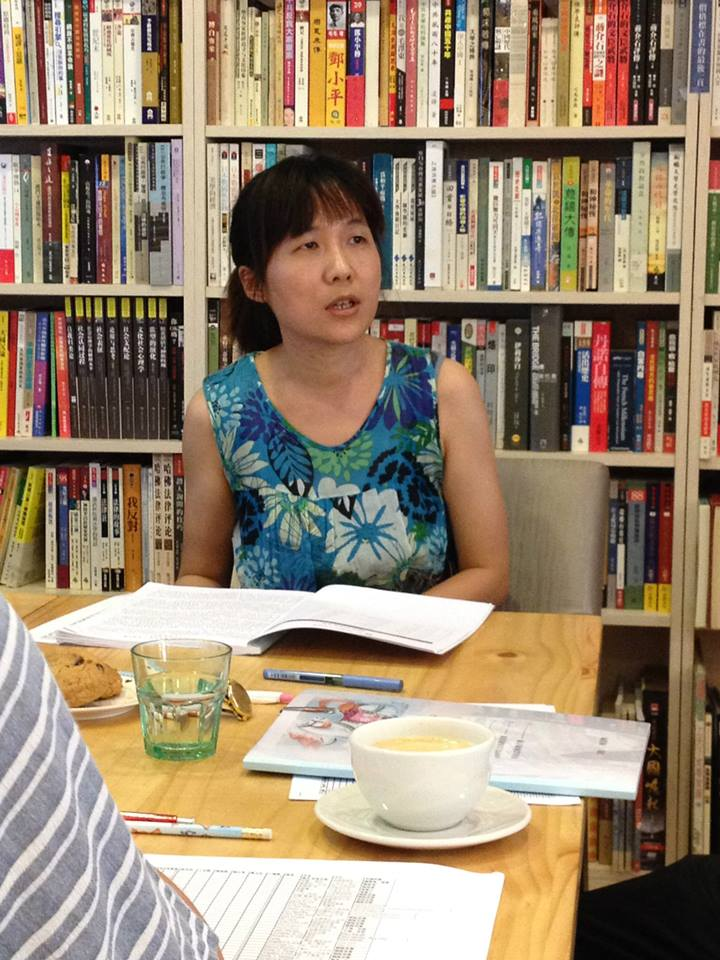 Ku Yu-ling